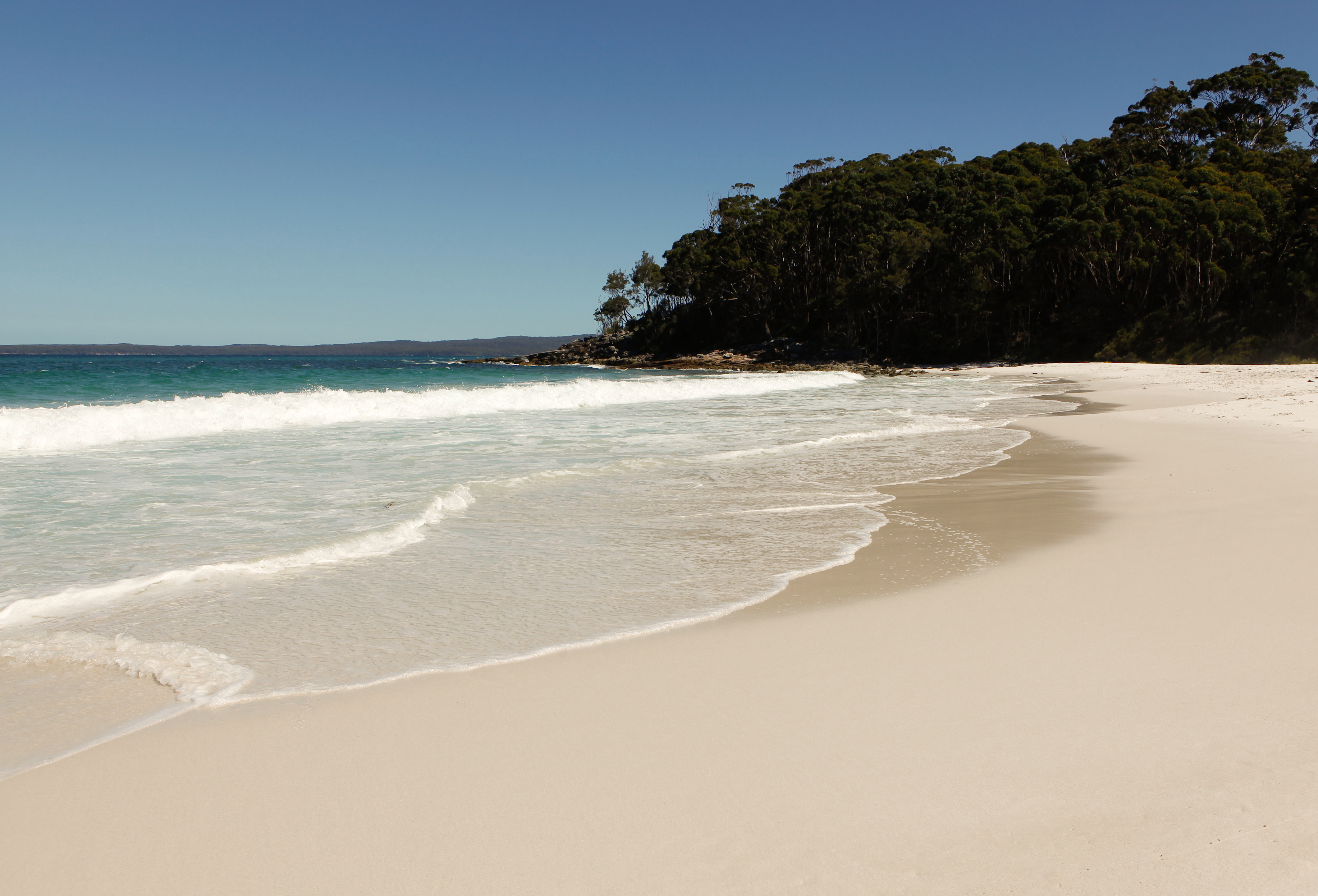 Blenheim Beach in Vincentia at Jervis Bay, New South Wales